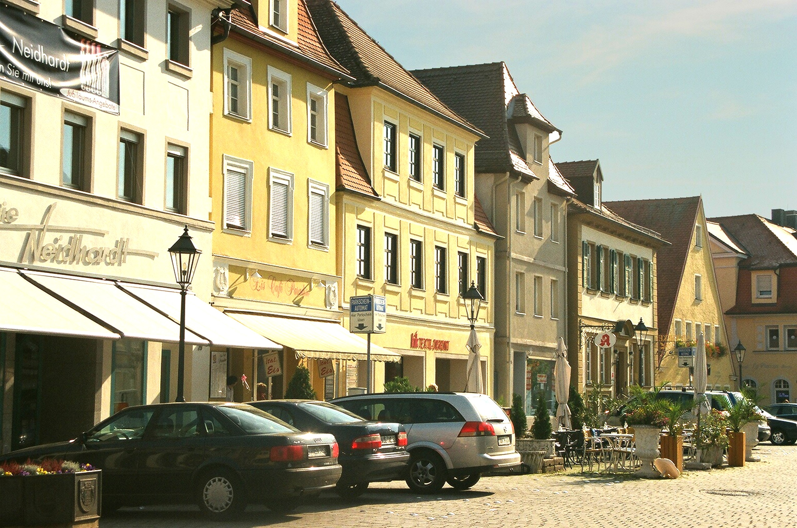 Gunzenhausen, a row of houses at the town square